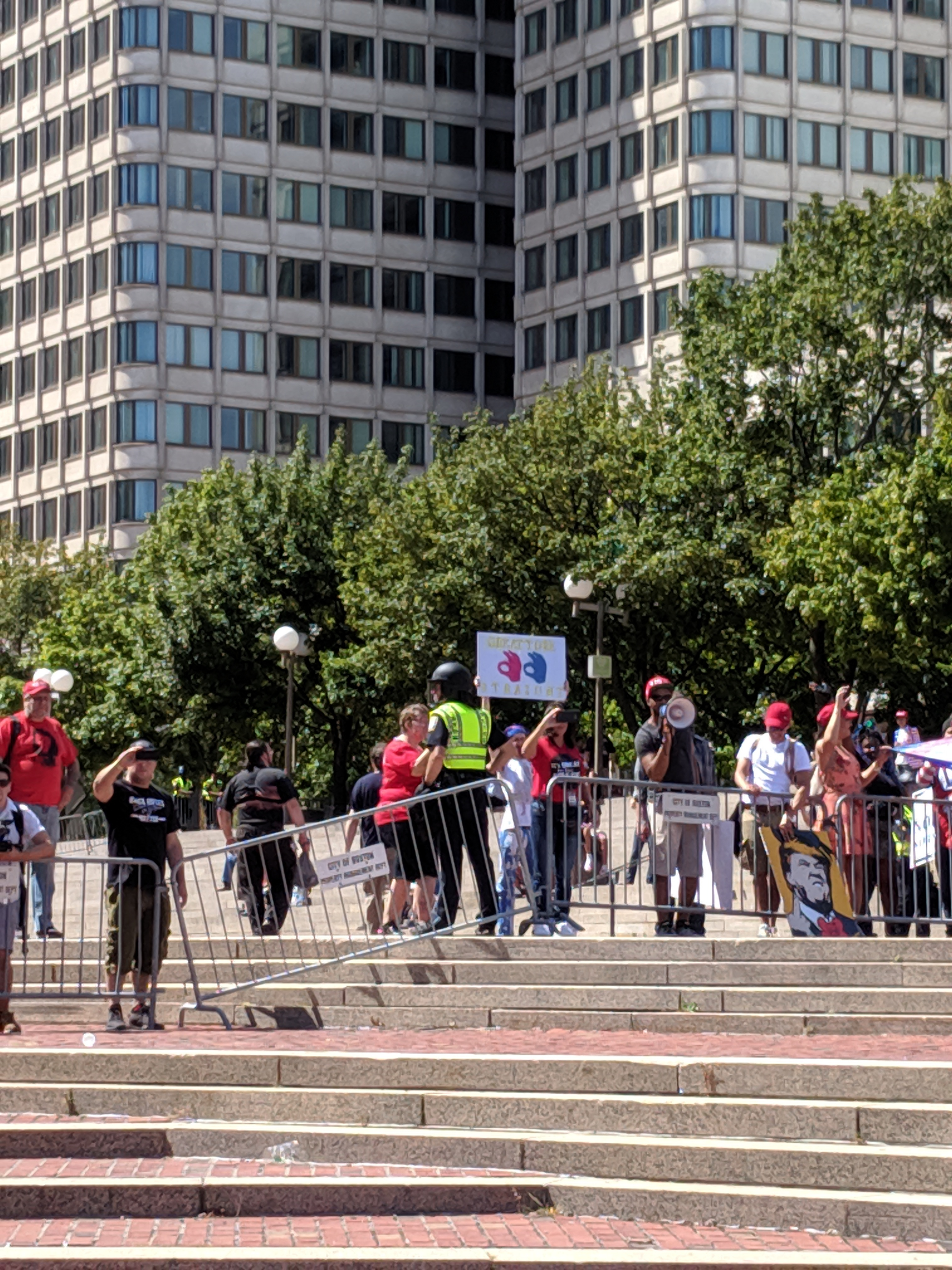 Straight Pride Parade in Boston